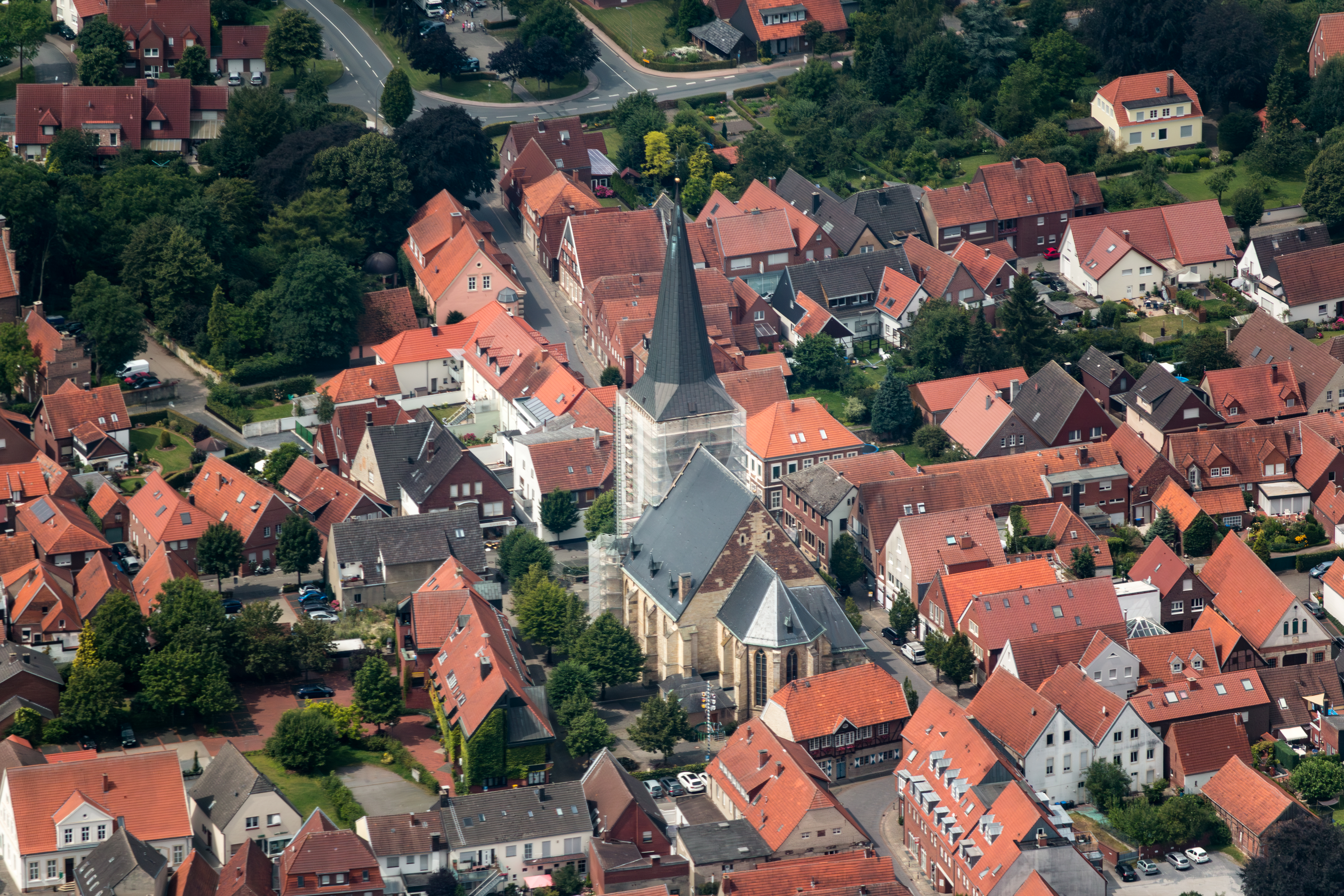 St. Gertrude's Church, Horstmar, North Rhine-Westphalia, Germany